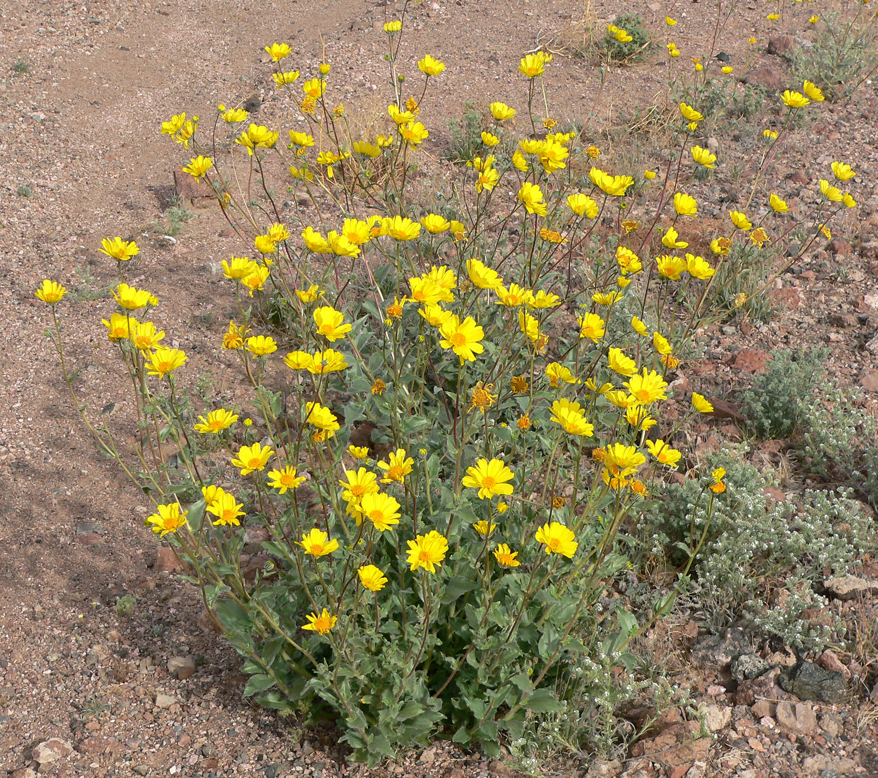 Geraea canescens near route 178, two miles east of Jubilee Pass, Death Valley National Park